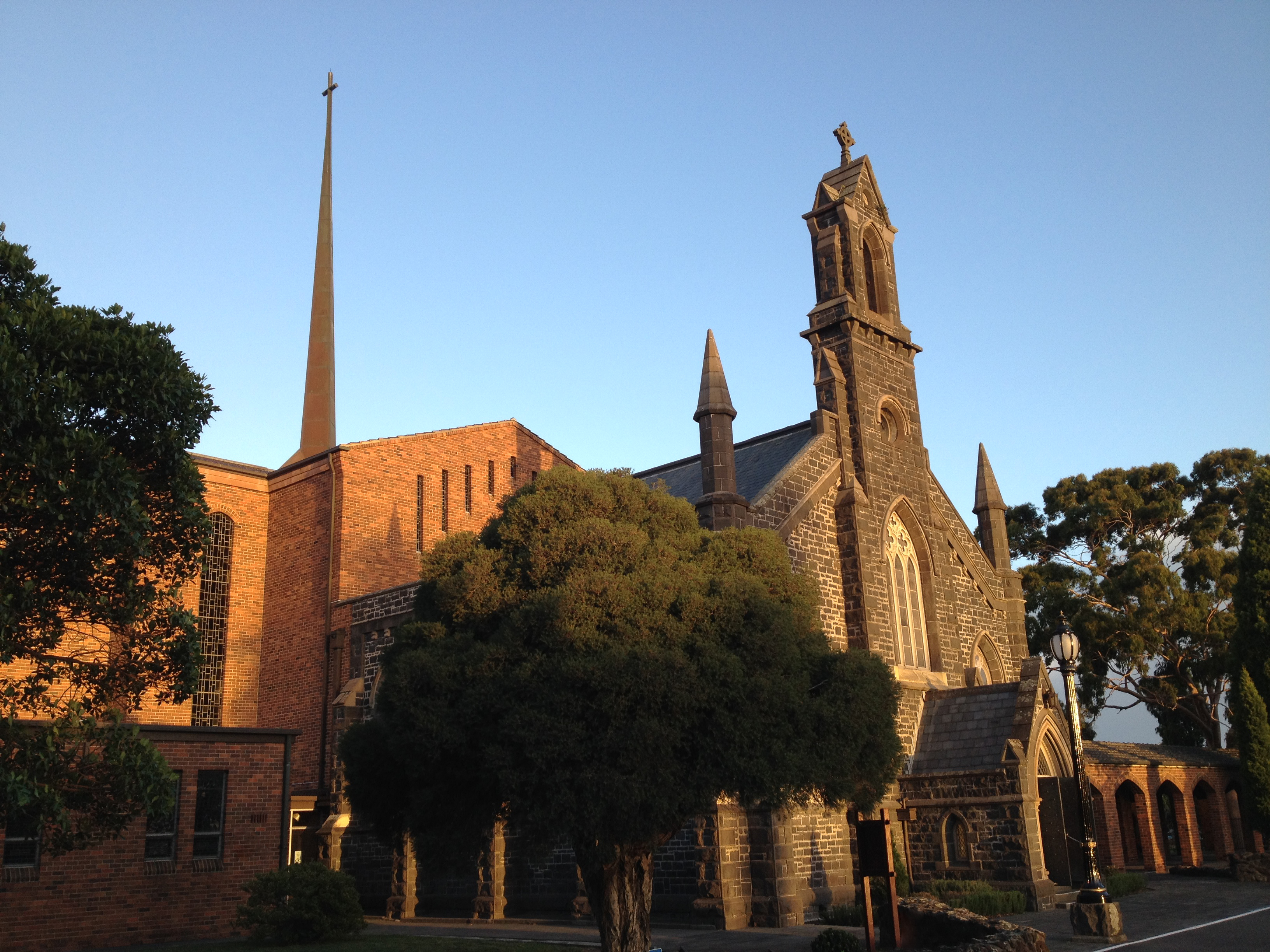 St Andrew's Church, Brighton - Pioneer Chapel and 1962 Chancel